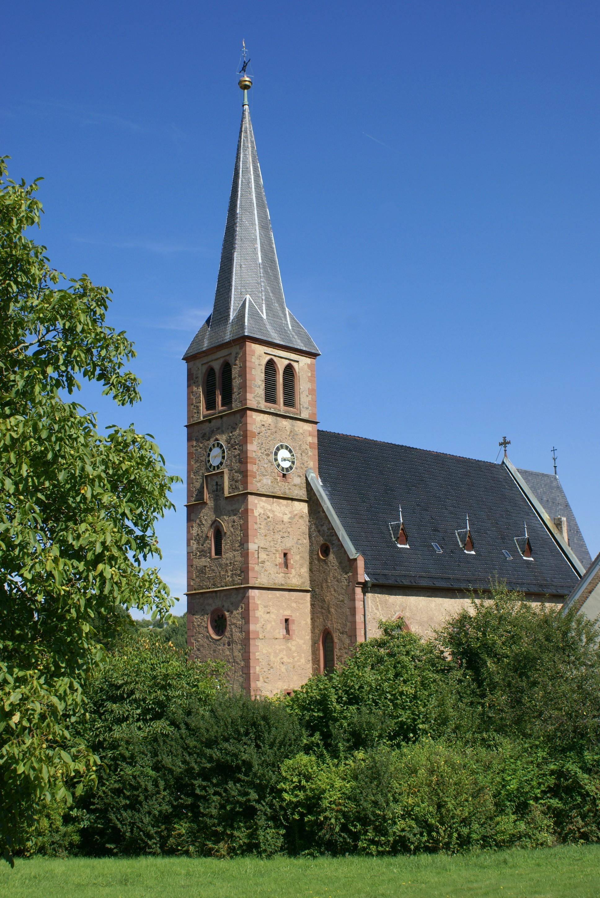 Parish church St. Michael from 1893 of the community Gunzenbach which now is part of Markt Mömbris